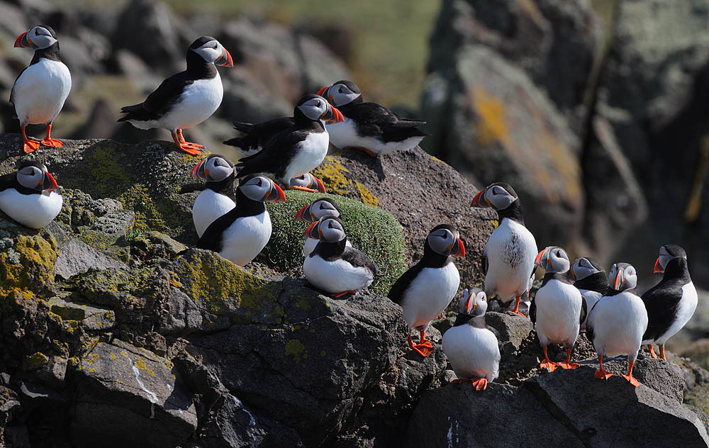 Puffins loafing around near the breeding burrows.